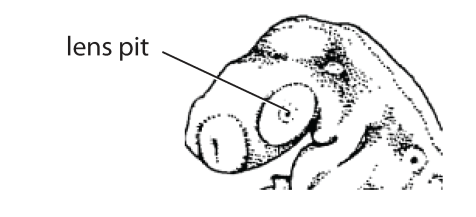 Standard Event System character depiction